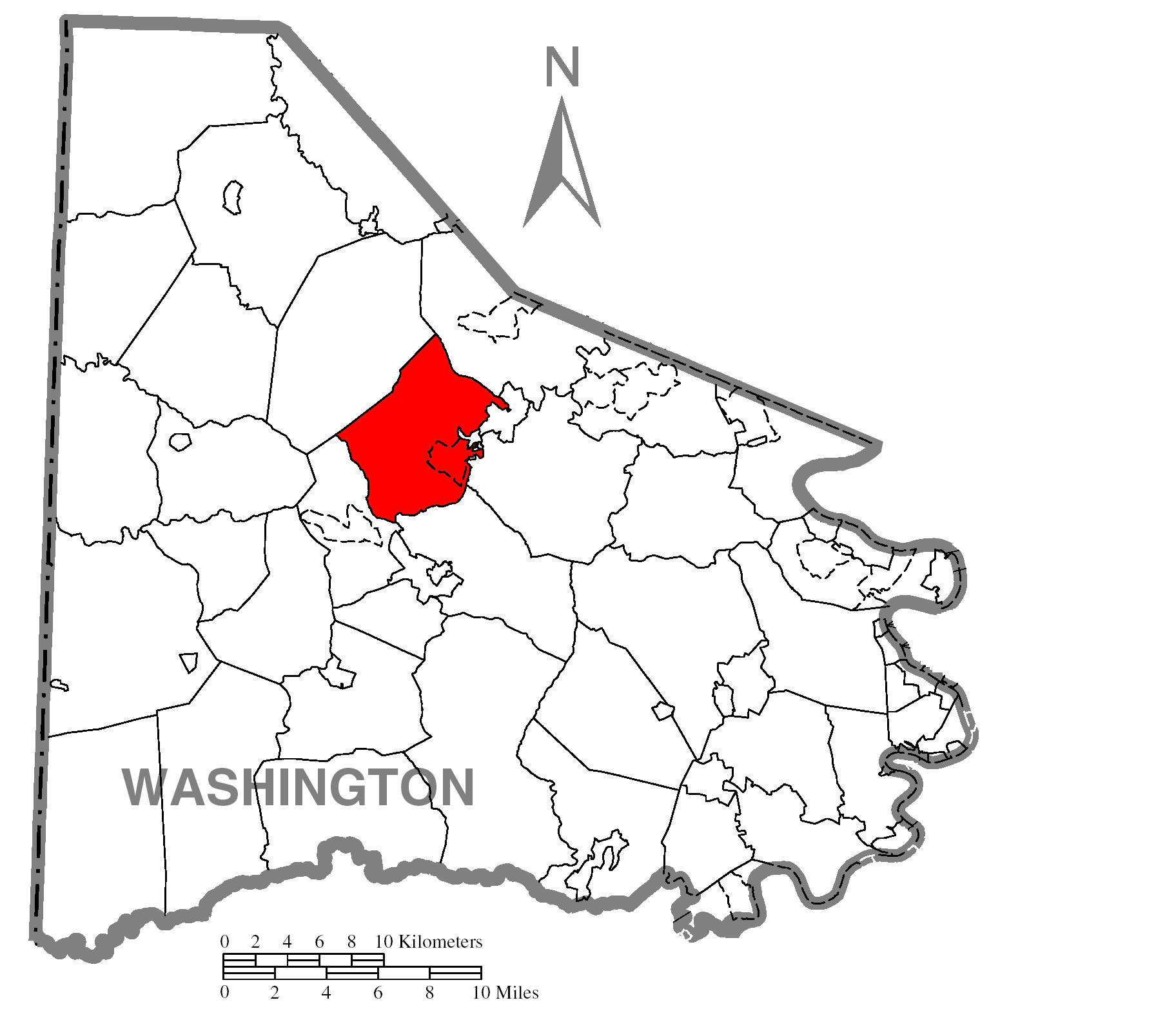 Map of Washington County higlighting Chartiers Township.